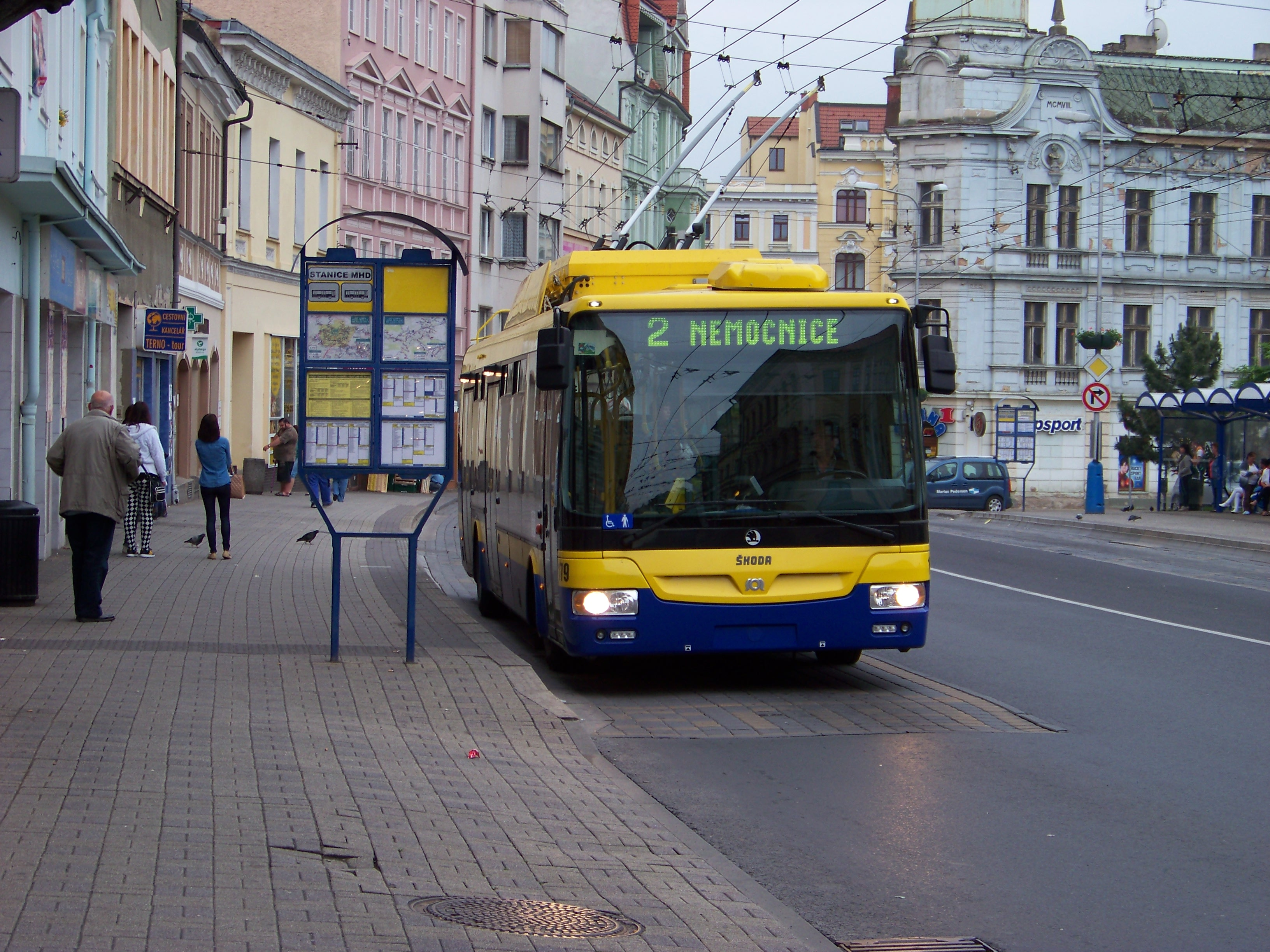 Teplice, Teplice District, Ústí nad Labem Region, Czech Republic. Benešovo náměstí, a trolleybus.